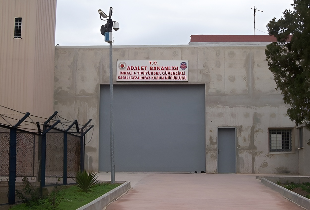 imralı prison